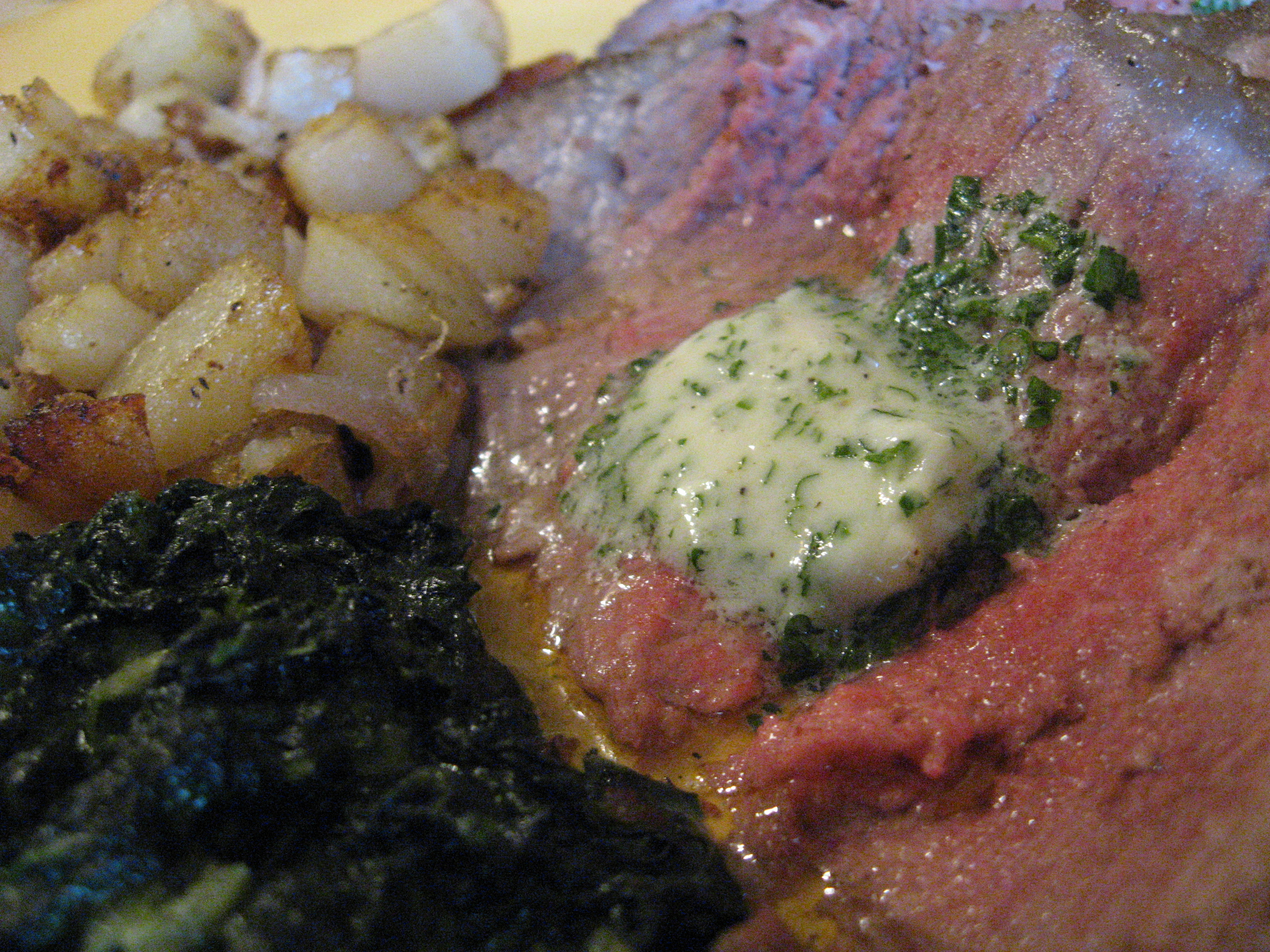 New York Strip with Beurre Maitre d'Hotel, Hash Brown Potatoes, Creamed Spinach